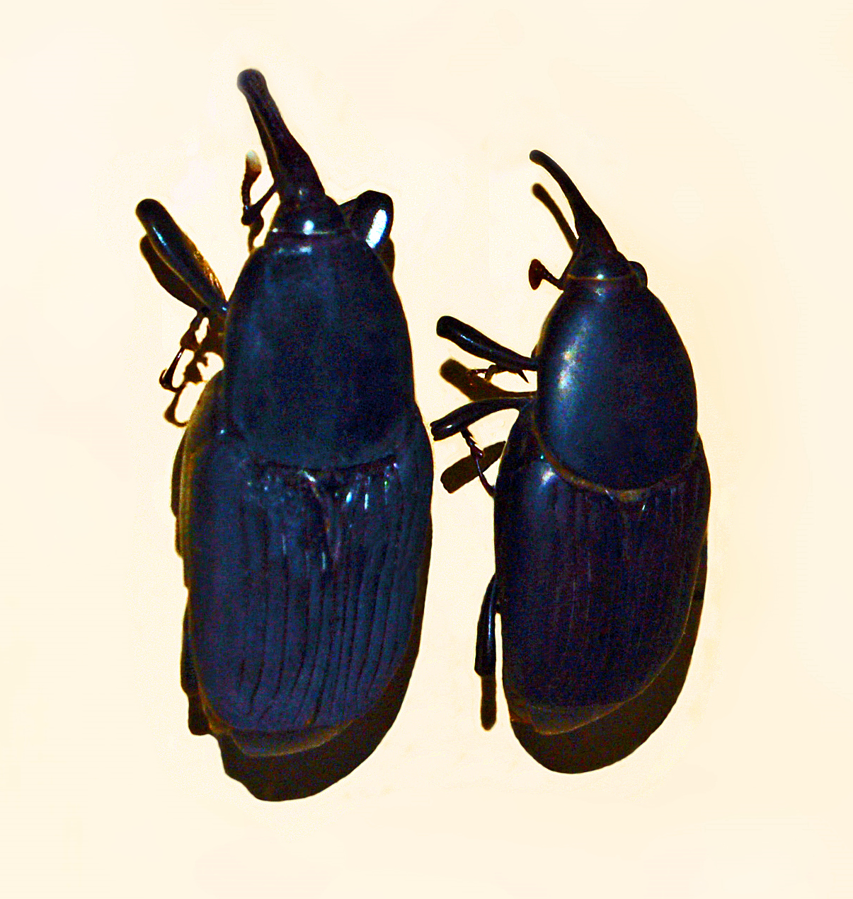 Rhynchophorus bilineatus from New Guinea